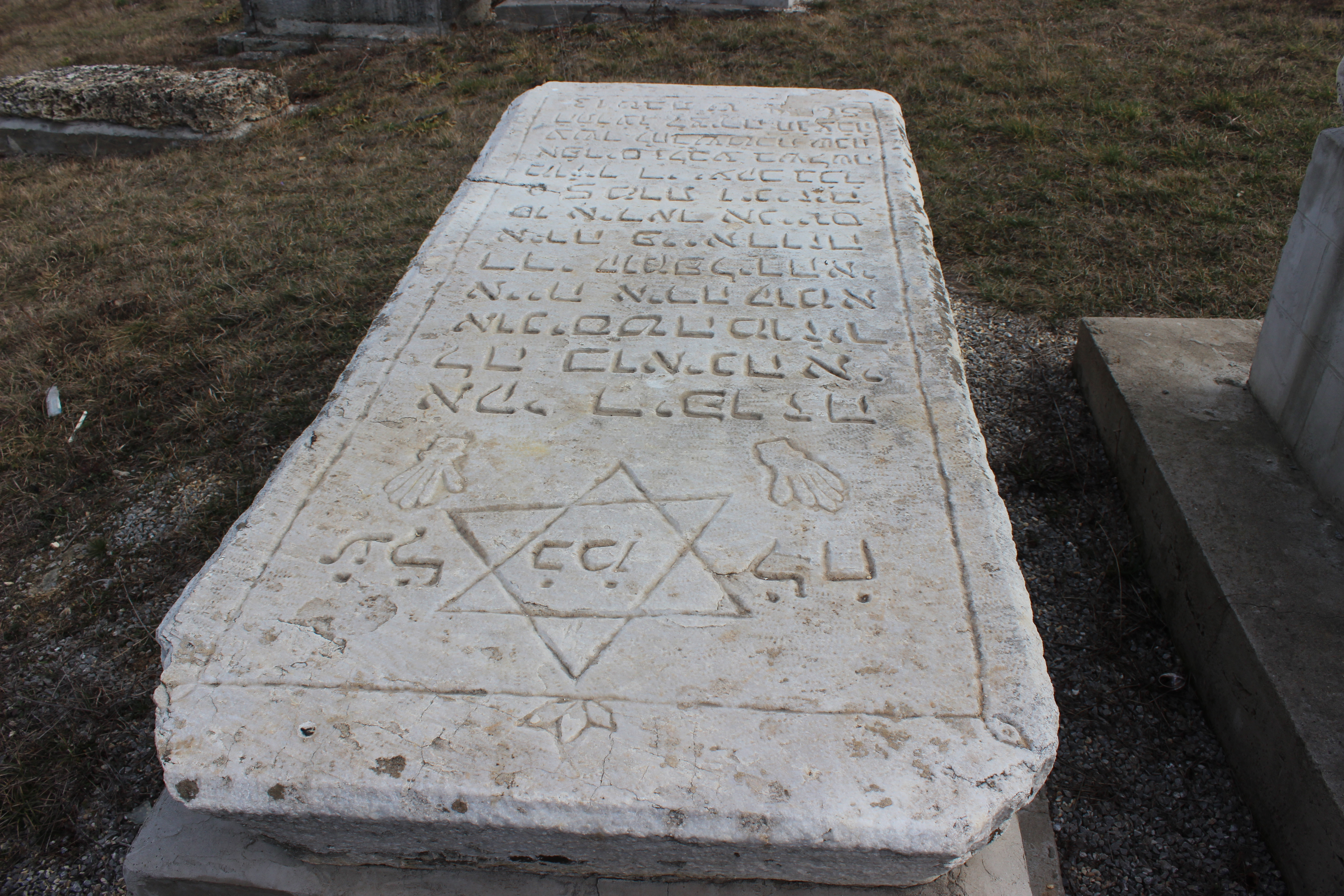 Scripture in Jewish cemetery in Prishtina, Kosovo